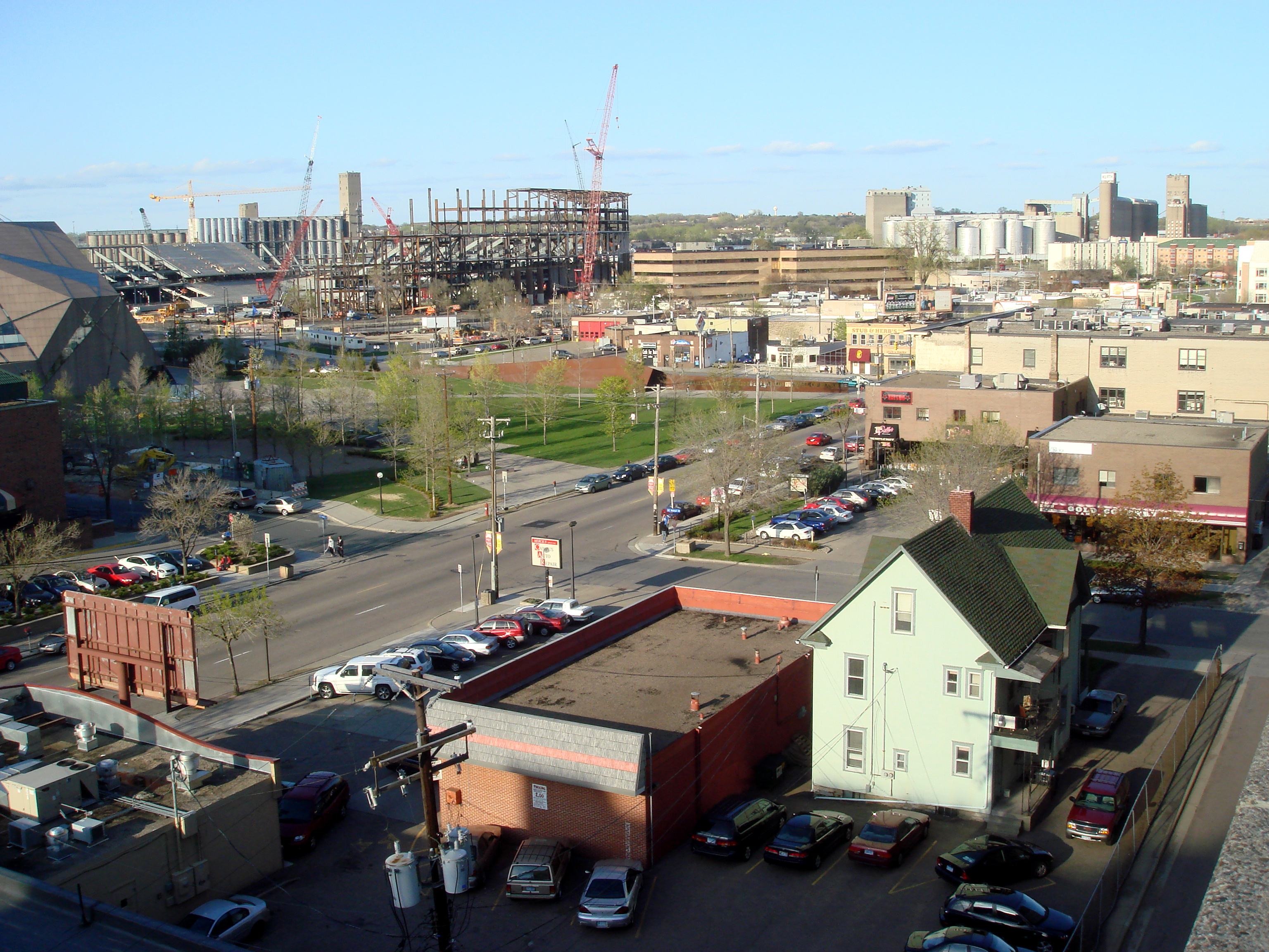 The Stadium Village neighborhood in Minneapolis, Minnesota. The central artery for the neighborhood is Washington Avenue, and is surrounded by restaurants, bars, cafes, stores, housing and other businesses supporting the University of Minnesota (including some University buildings). The neighborhood was named after the old Memorial Stadium, which was the home of Minnesota Golden Gophers college football from 1924-1981, and demolished in 1992. The site of the original stadium is now partially occupied by the trapezoidal McNamara Alumni Center (designed by Antoine Predock. The new TCF Bank Stadium is rising in the background, only a block away from the site of the former stadium.